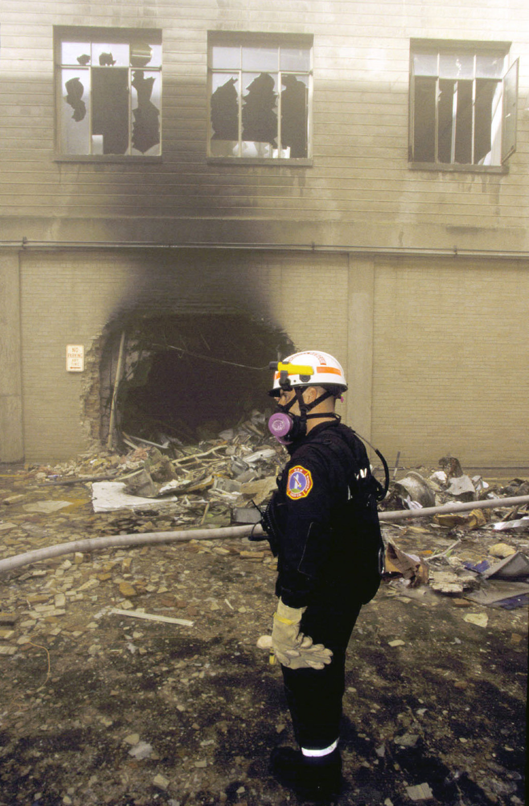 Hole Truth: Flight 77's landing gear punched a 12-ft. hole into the Pentagon's Ring C. (Photograph by Department of Defense)